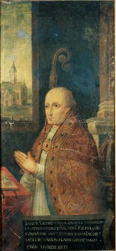 Lietbertus, bishop of Cambrai 1051-1076; baroque portrait in Cambrai cathedral as founder of Holy Sepulchre Abbey